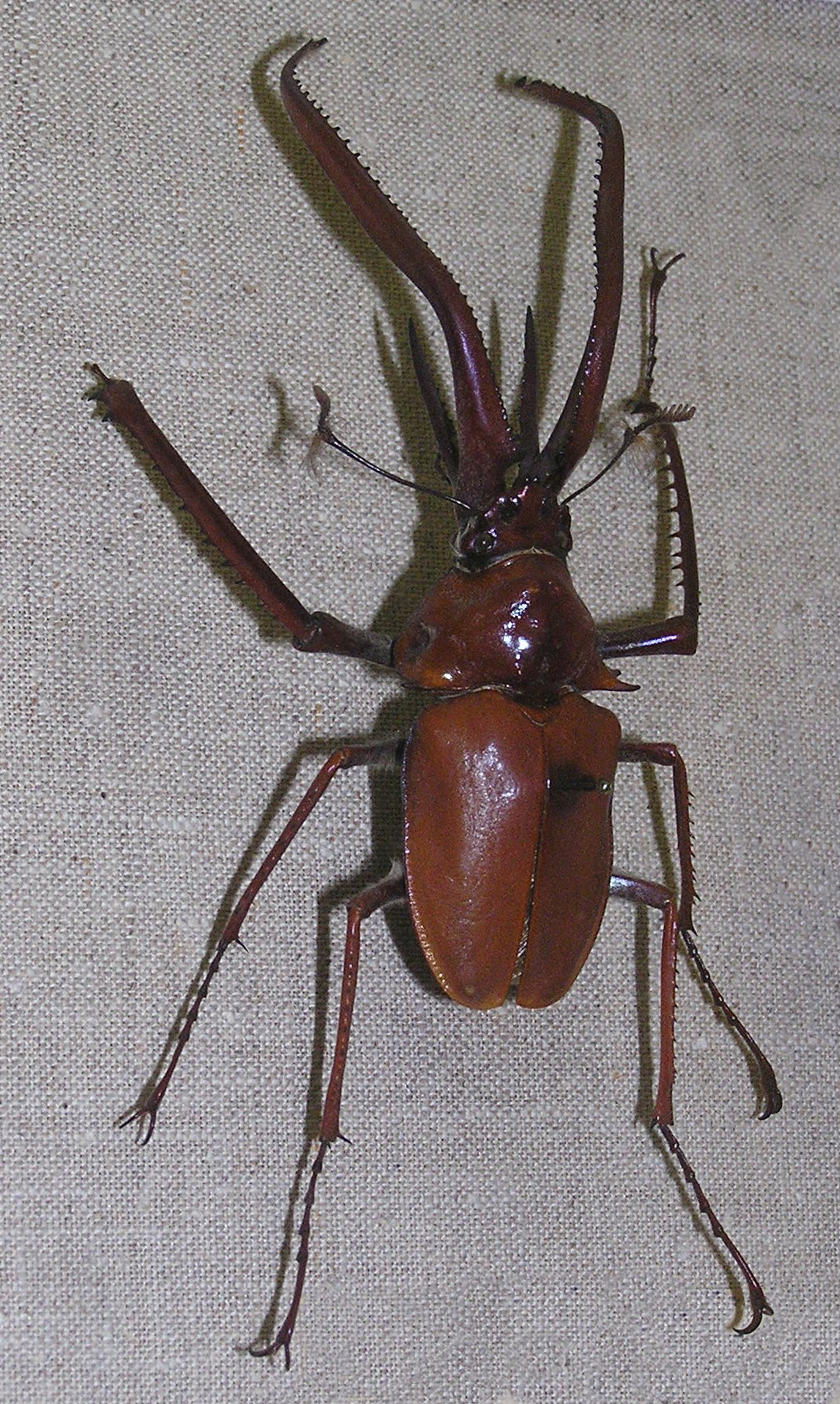 Chiasognathus granti